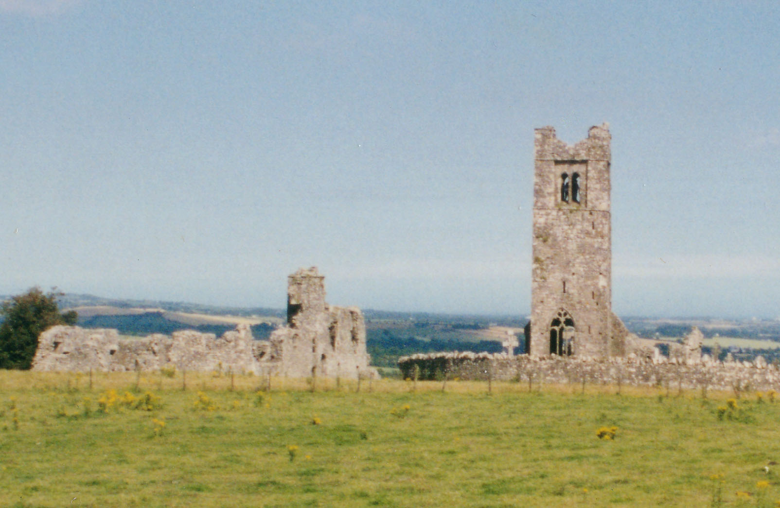 Ruins of the friary church and collage on the Hill of Slane near Slane in Ireland.